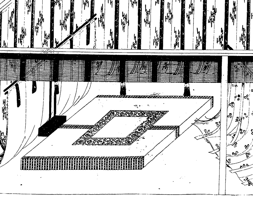 Furniture of Shinden